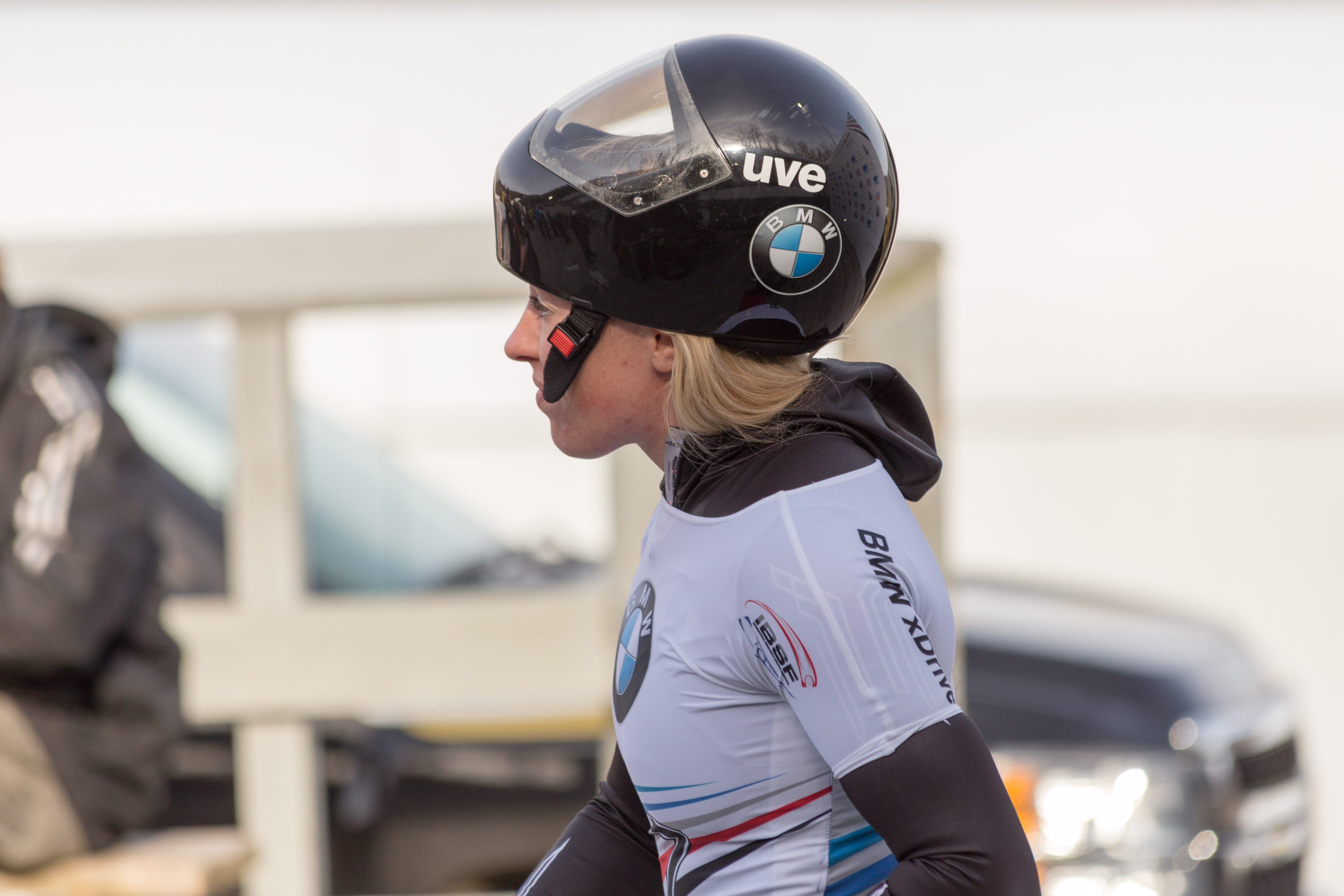 Savannah Graybill (USA) is seen in the finish area after her second run in the IBSF Skeleton World Cup race in Lake Placid.